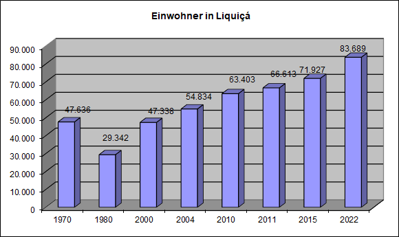 Population in Liquiçá/East Timor